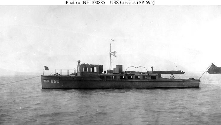 United States Navy patrol boat USS Cossack (SP-695) in 1919 after post-World War I removal of her armament